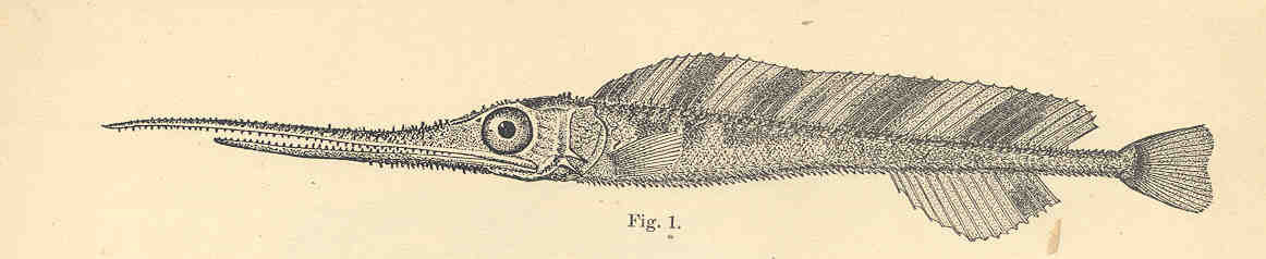 Young of Sword-Fish, 37 mm long Fac simile of figure in Lutken's Spolia Atlantica Subject: Swordfish Tag: Fish